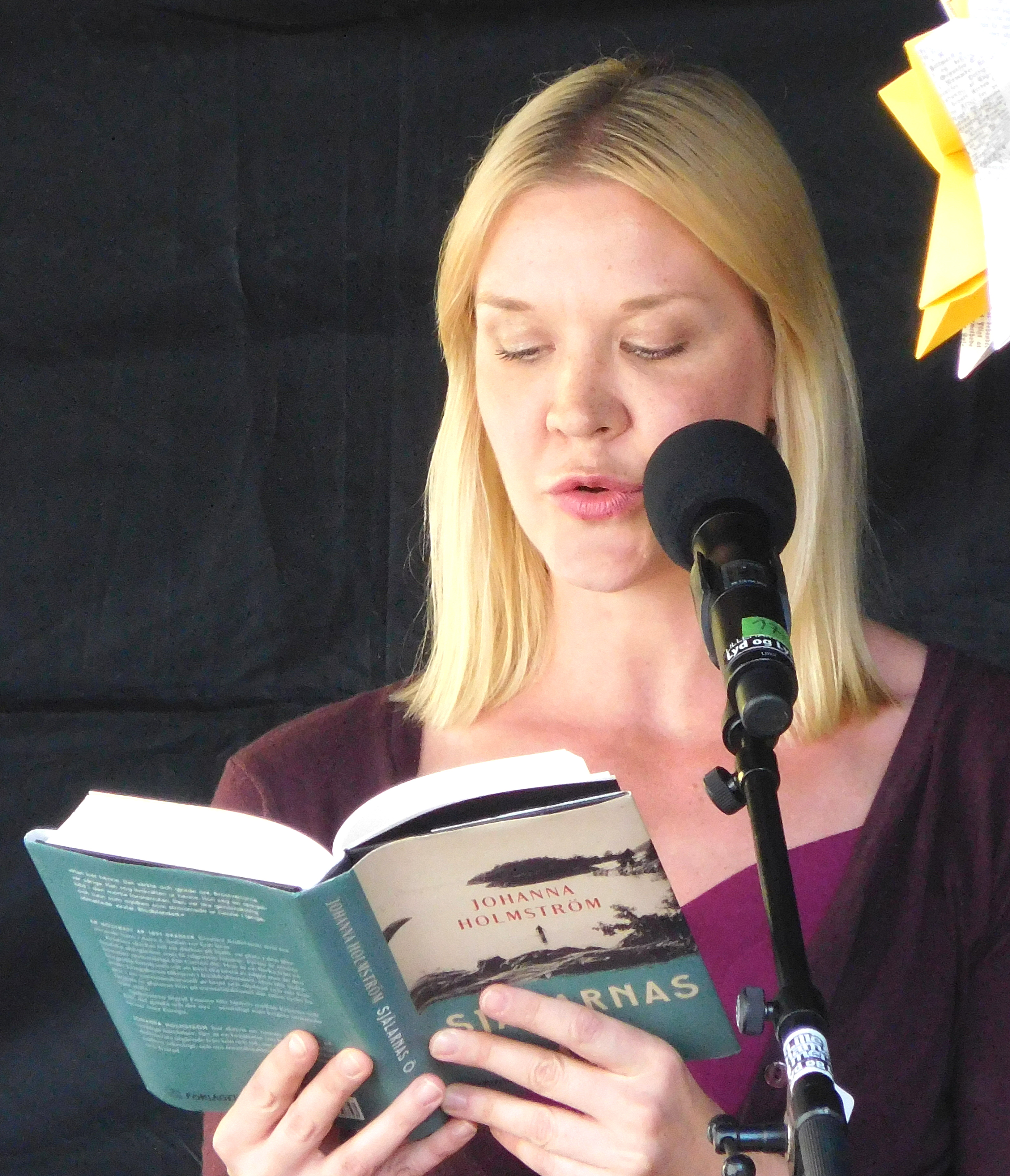 Finnish writer Johanna Holmström (born 1981) at the Literature Festival of Lillehammer